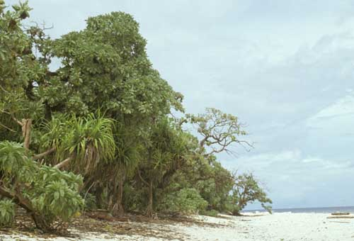 Beach of Fanna Island, Southwest Islands of Palau. Original field note: Fanna supports lush, closed canopy forests, with a whopping 88% of the island's are in indigenous vegetation. Here we have (L to R) tree heliotrope, pandanus, more tree heliotrope.